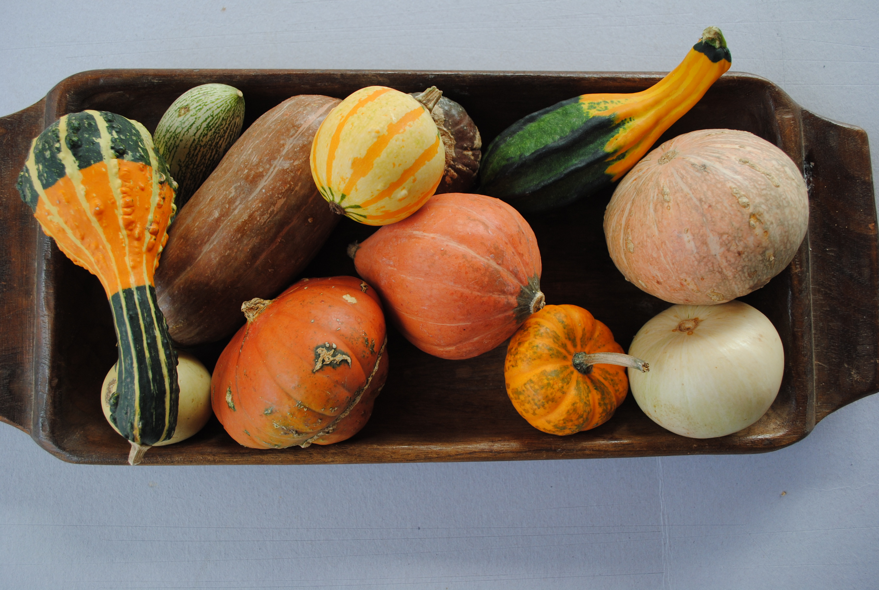 Different types of mature small gourds of Cucurbita pepo and maxima in a decorative pattern